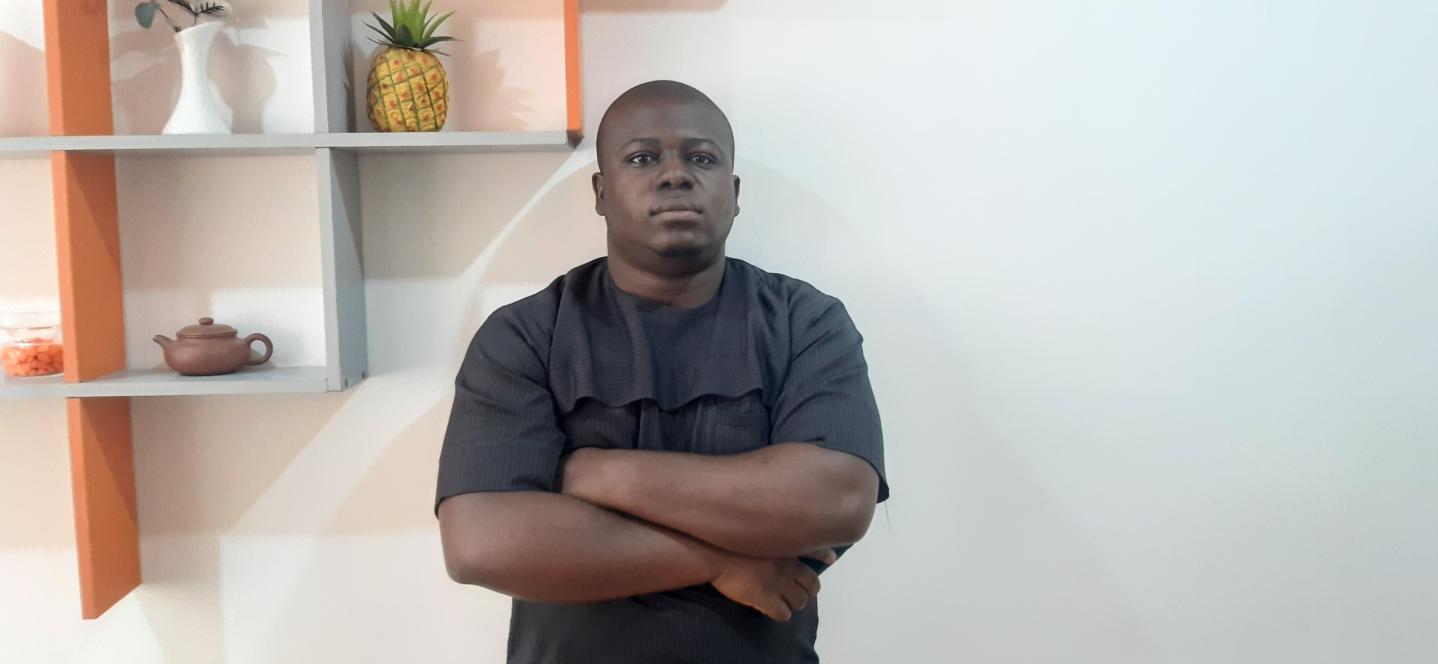 Wikimedia Fan Club, Ekiti State University paying a courtesy visit to Barr. Nelson Olanipekun of Citizens' Gavel in his office at Ibadan